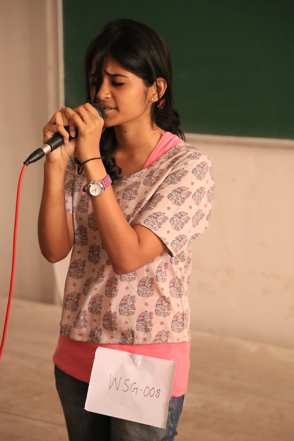 Solo song performing by a student in Arts fest Sargam at SJCET palai